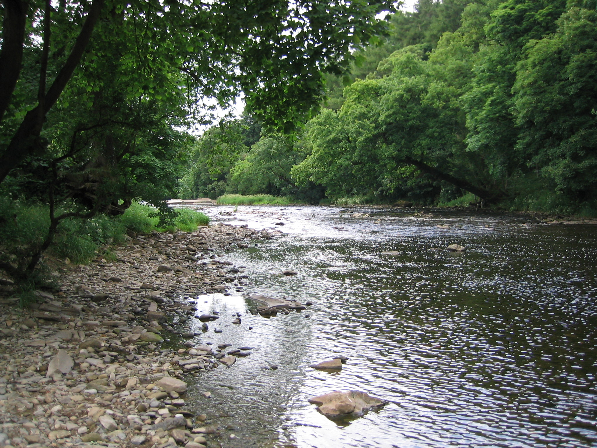 River Hodder near Stonyhurst